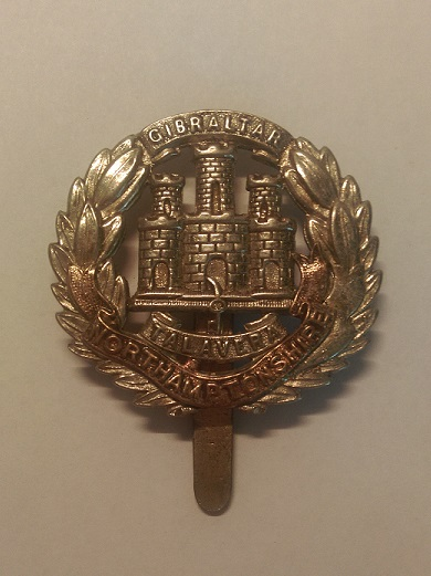 Photo of Northamptonshire Regiment Cap Badge from personal collection